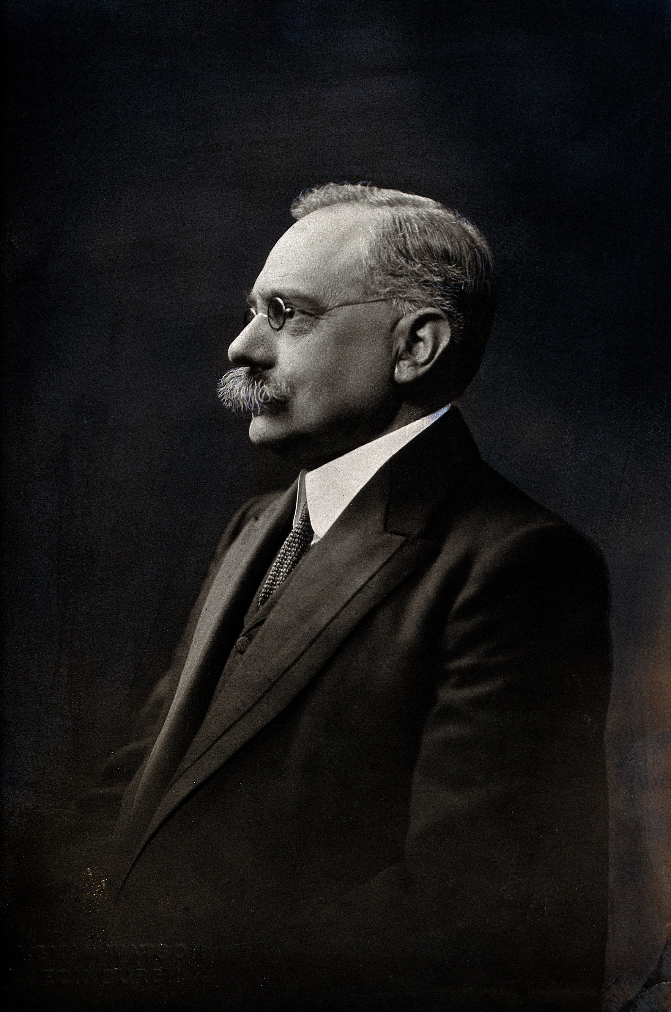 John William Ballantyne. Photograph by A. Swan Watson. Iconographic Collections Keywords: portrait photographs